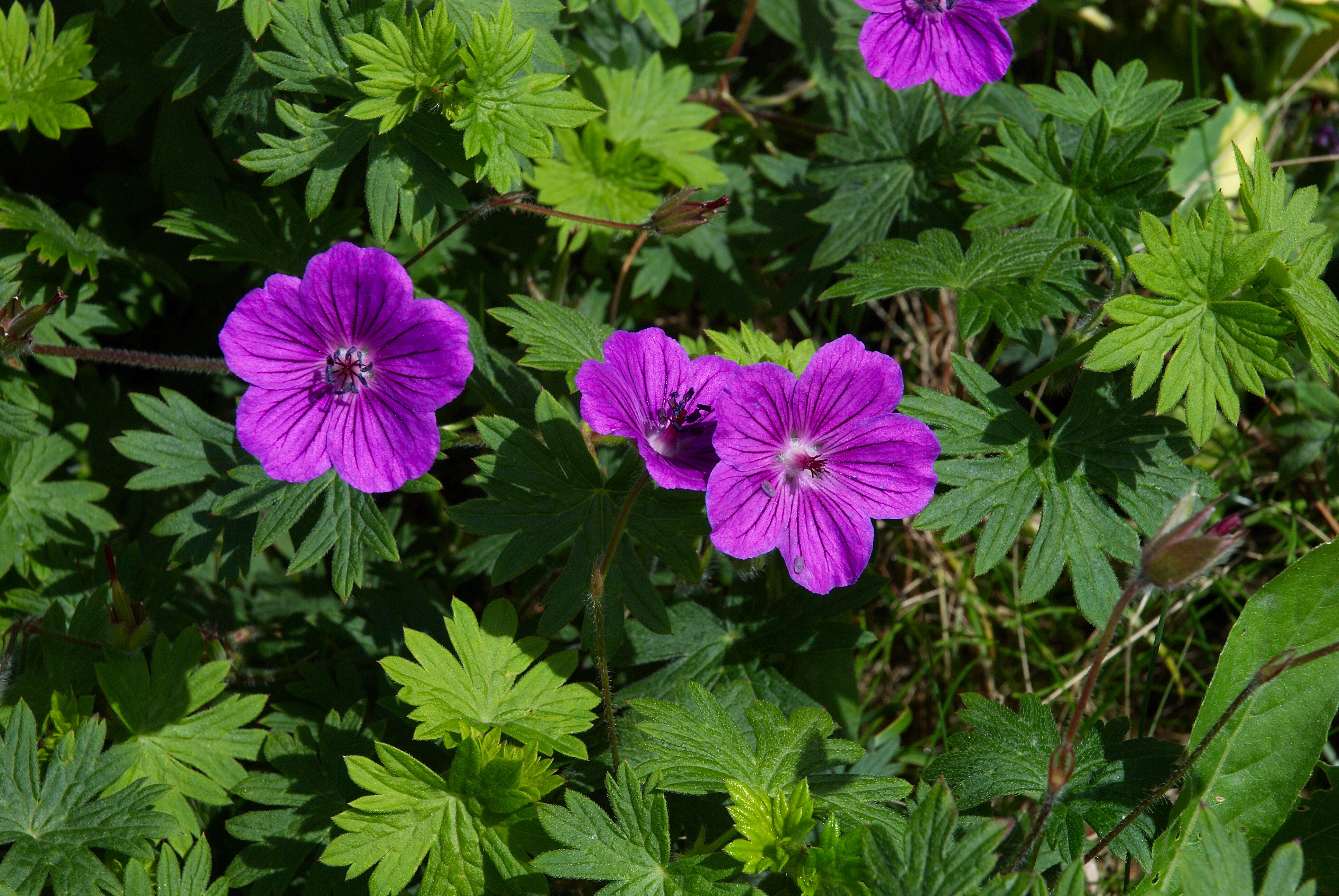 Geranium sanguineum 'Leeds form'